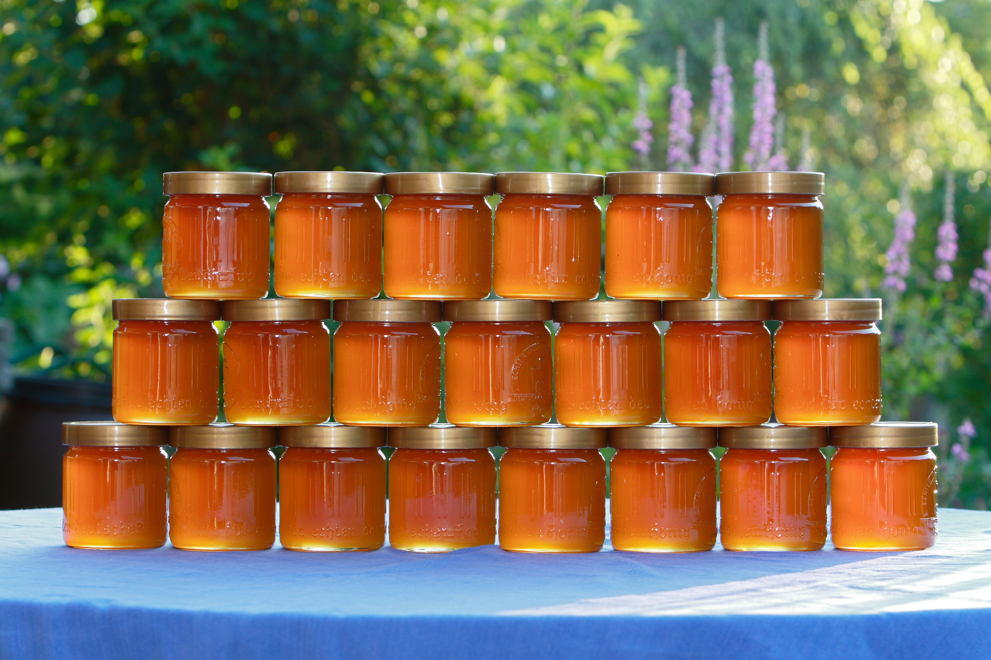 After harvest - jars of glass filled with honey